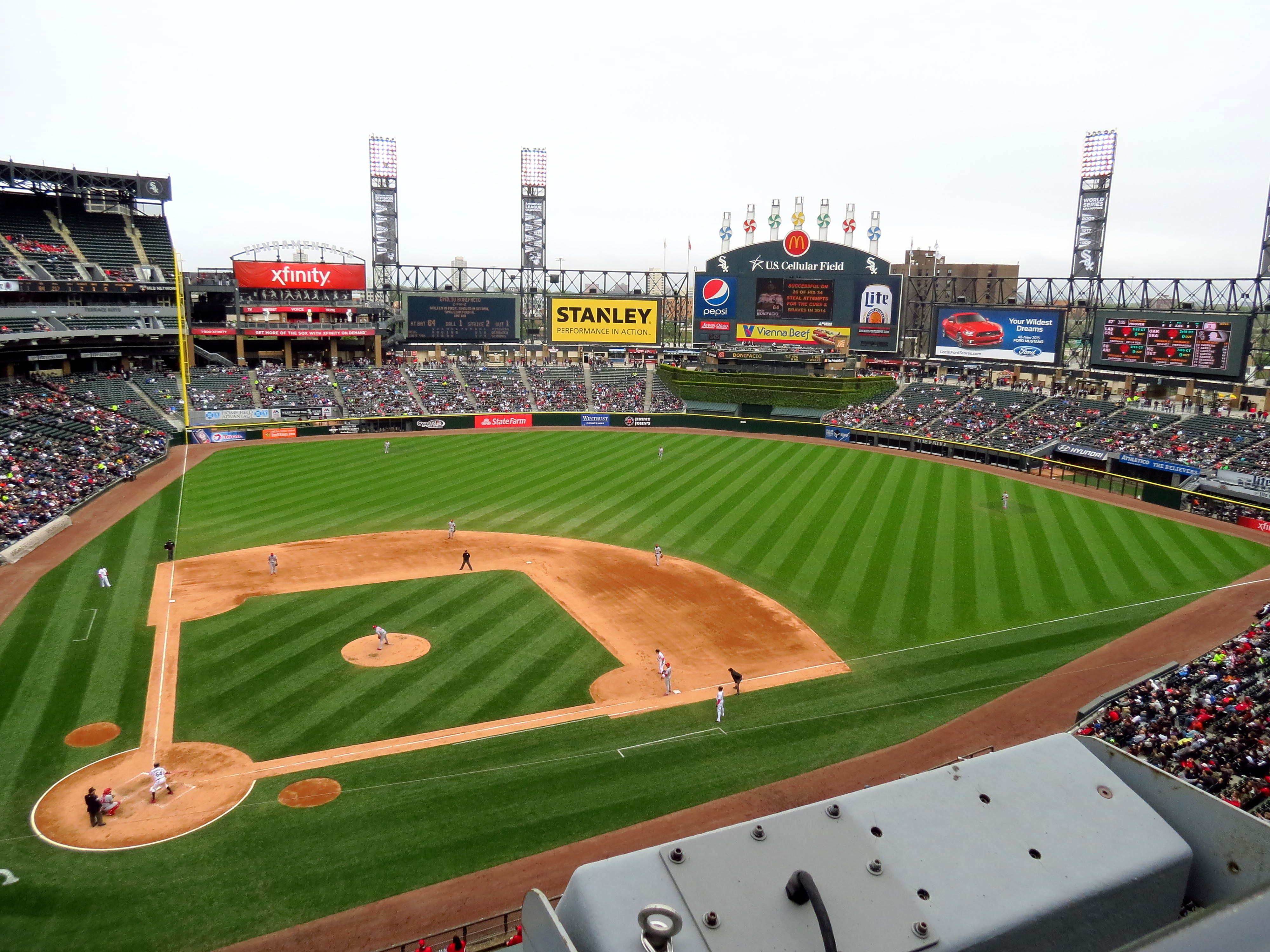 Cincinnati Reds at Chicago White Sox